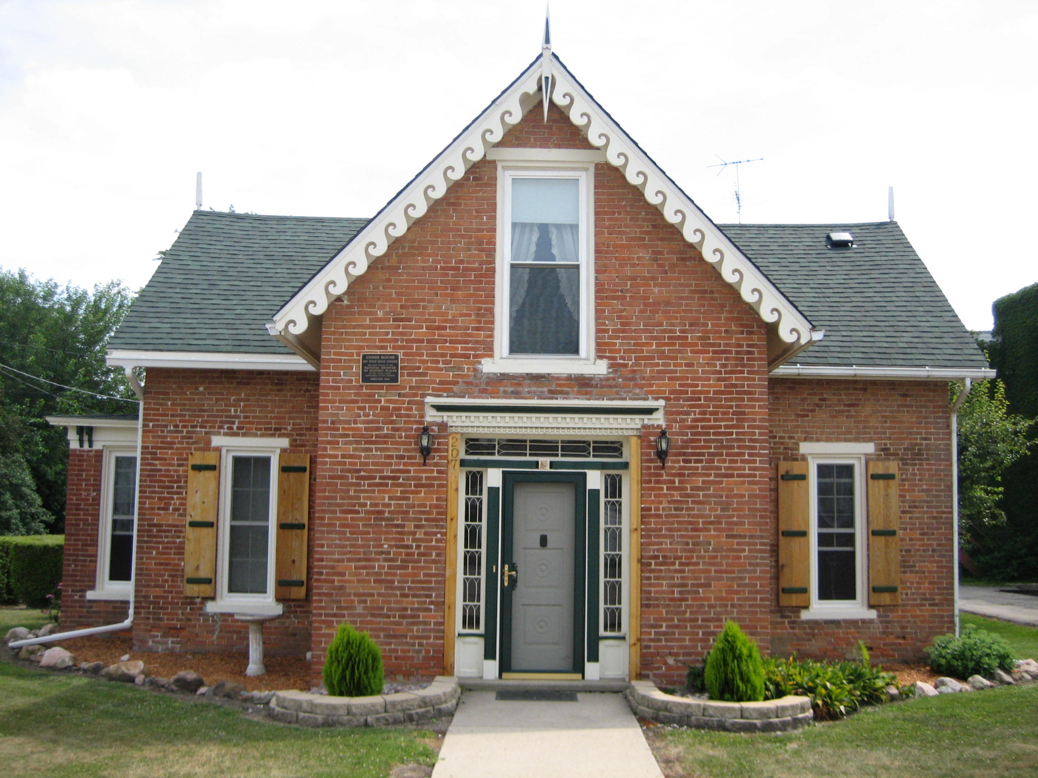 Union House, Orangeville, Illinois, USA. U.S. National Register of Historic Places.